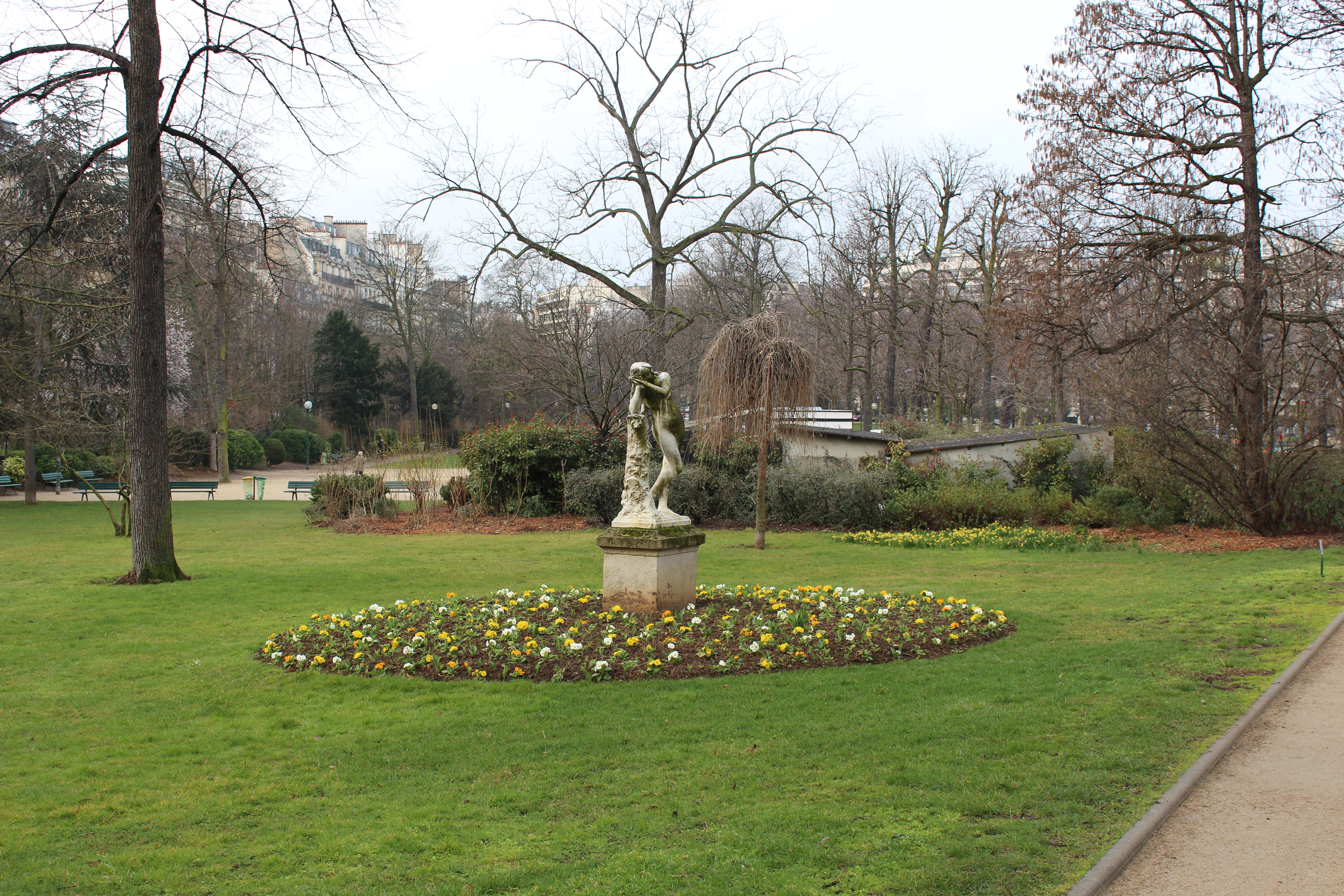 Jardin du Ranelagh, Paris, March 2013